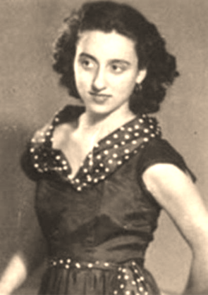 Ms.Fayrouz in the 50's